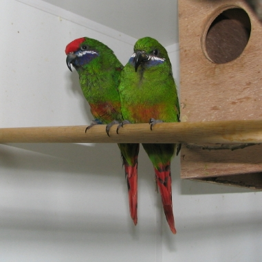 Plum-faced Lorikeet (also known as the Whiskered Lorkeet). A pair in a cage with a nestbox. The male is on the left and has red on the top of its head. The female is on the right and has a green head.